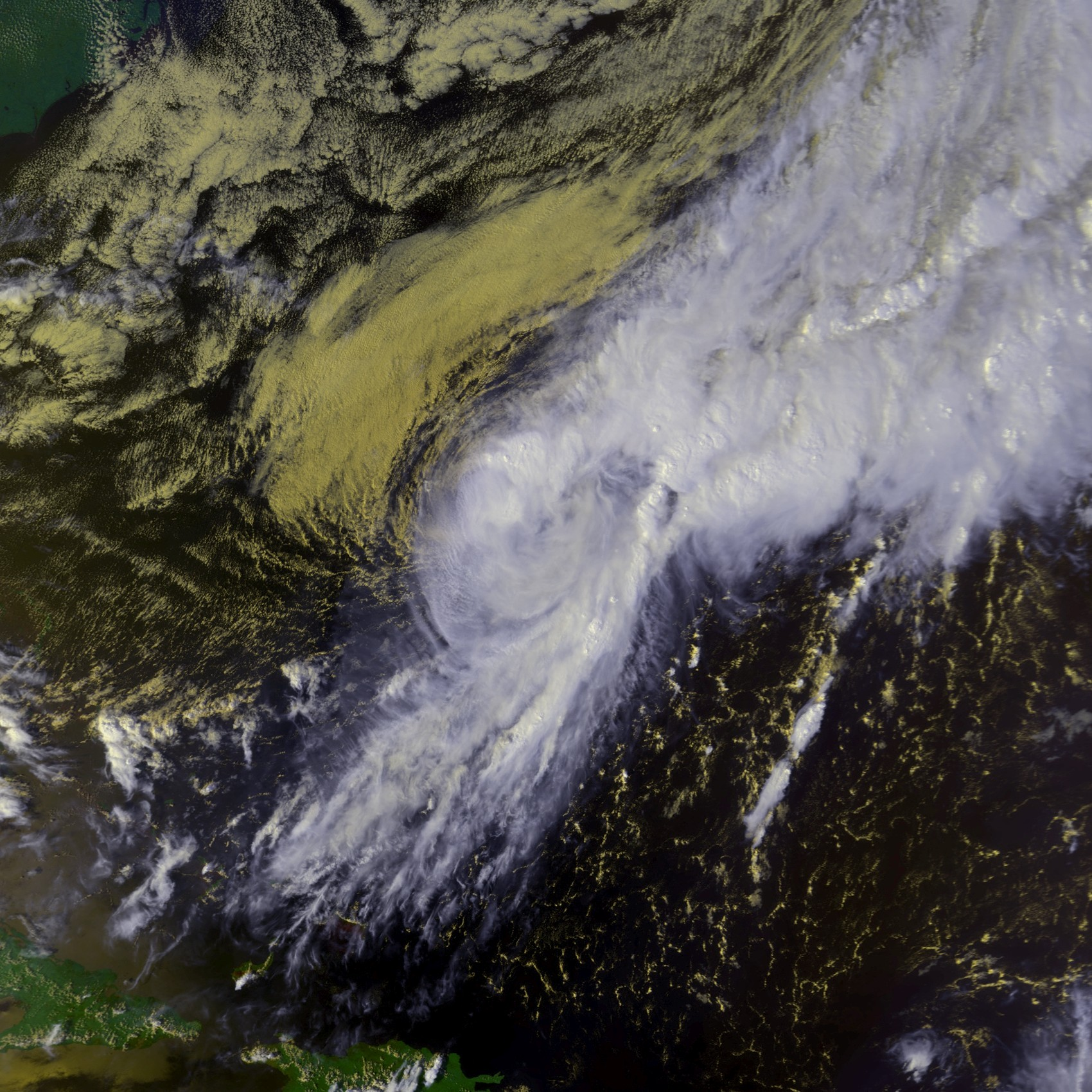 Tropical Storm Earl on October 1 at approximately 1944 UTC. This image was produced from data from NOAA-11, provided by NOAA.